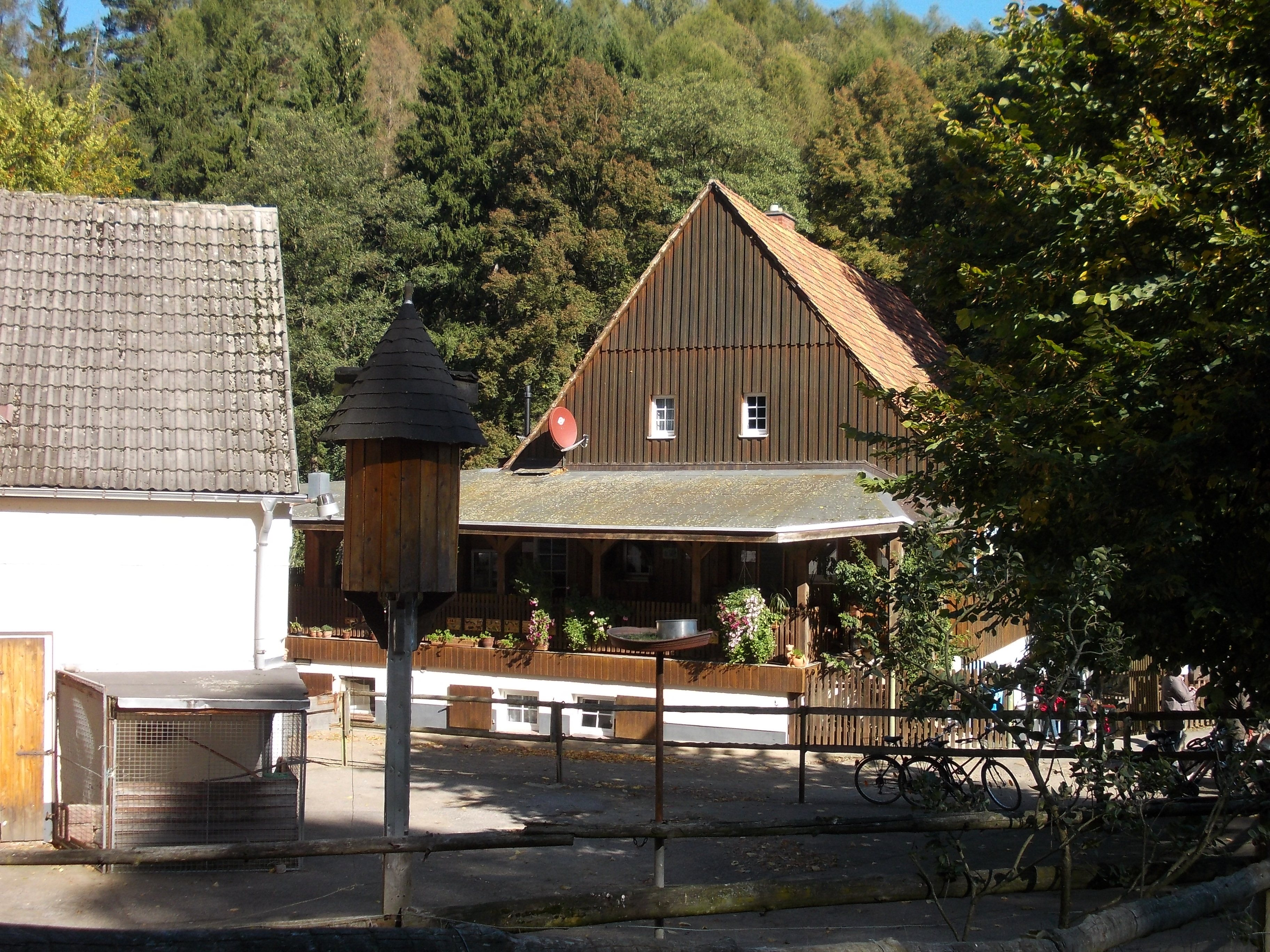 Höllmühle restaurant near Chursdorf (Penig, mittelsachsen district, Saxony)